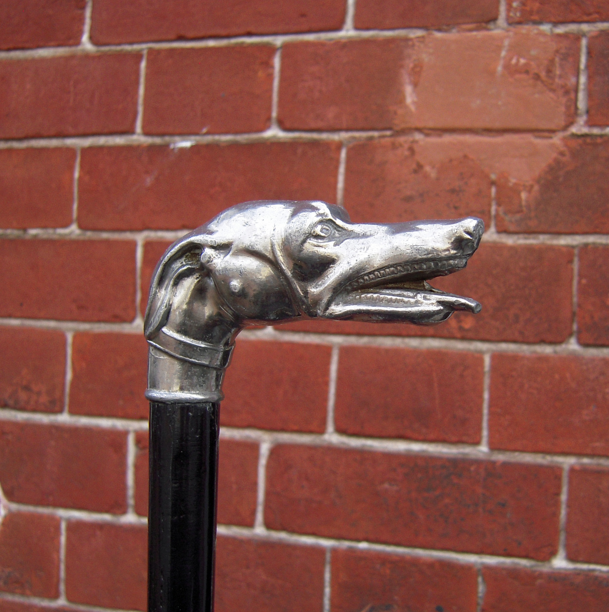 Pewter head on wooden stick